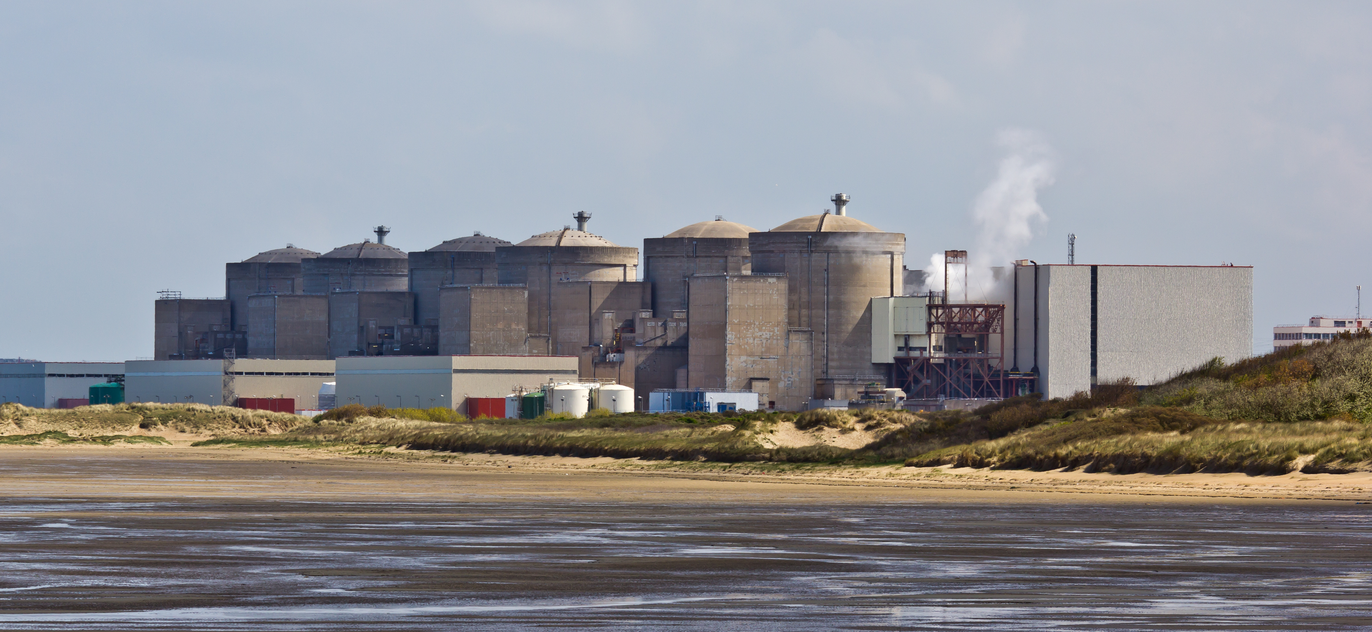 Gravelines Nuclear Power Station, view from sea side